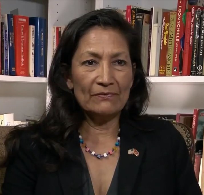 V. B. Price talks with Debra Haaland, Democratic candidate for Lt. Governor.